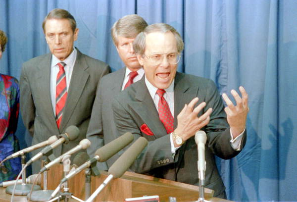 Accompanying note "Republican Party National Chairman Frank J. Fahrenkopf Jr., makes an expressive gesture as he made a point during a Monday news conference. Fahrenkopf had some difficulties with tongue tangling on a few occasions during the course of the news conference including introduction Florida's Gov. Bob Martinez, right, as the Governor of Texas. Center shows GOP Insurance Commissioner candidate Tom Gallagher."